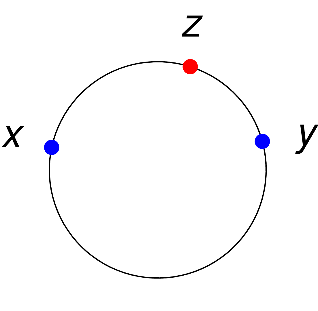 Circle as convex metric space, Made with Matlab